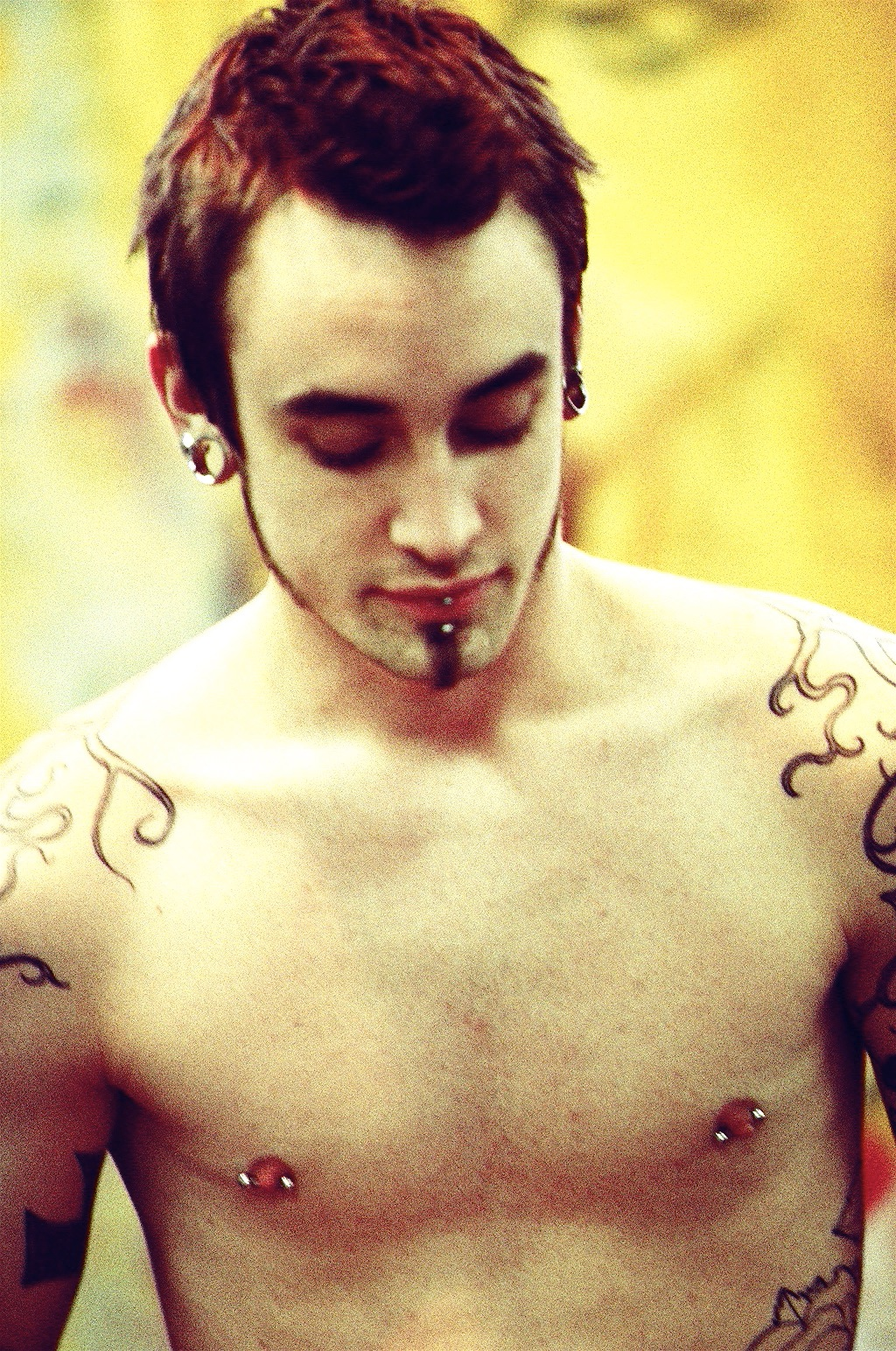 piercings and tattoos